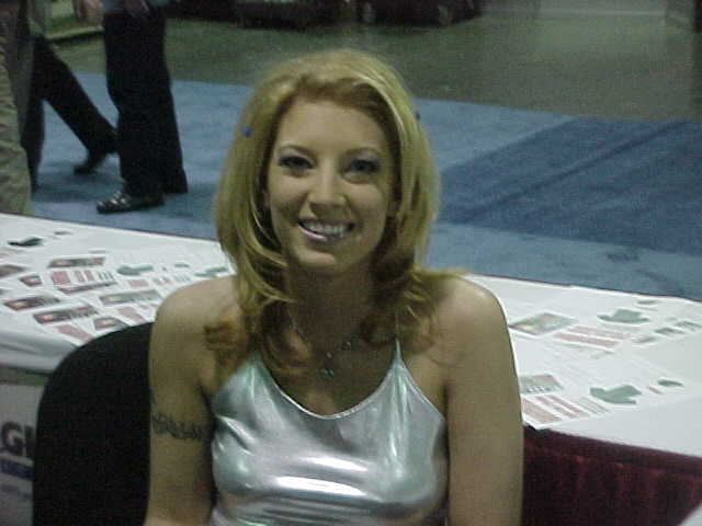 At CES January 6-9, 2000